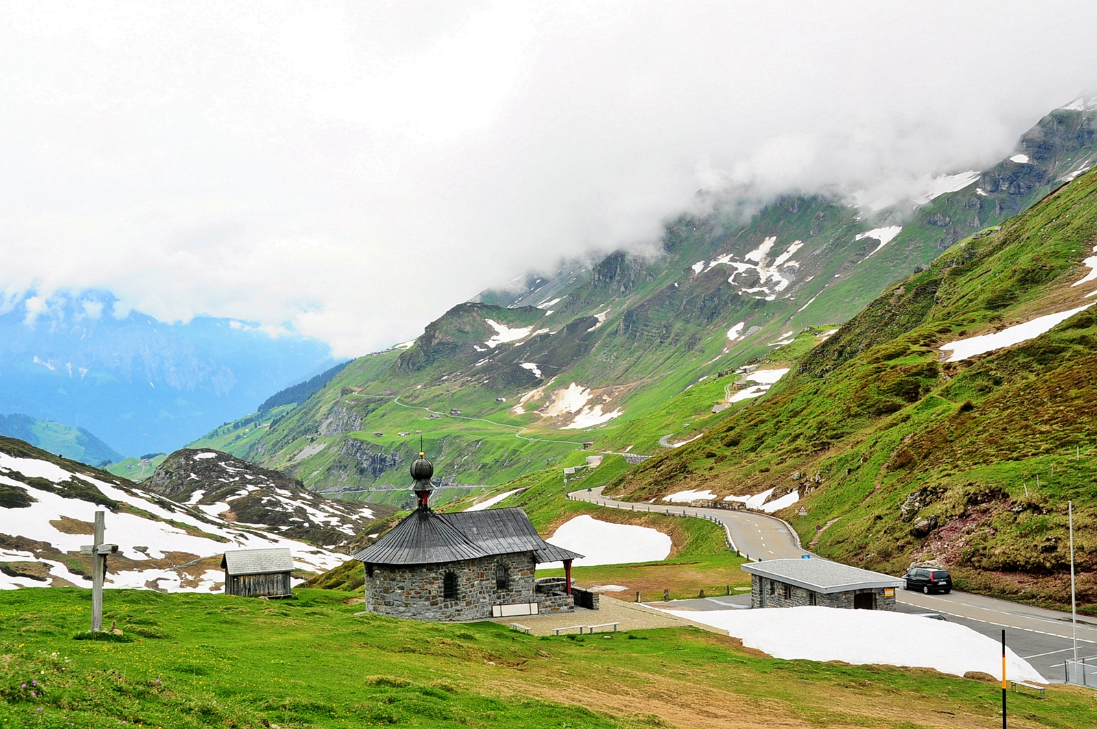 Klausenpass, Uri, Switzerland